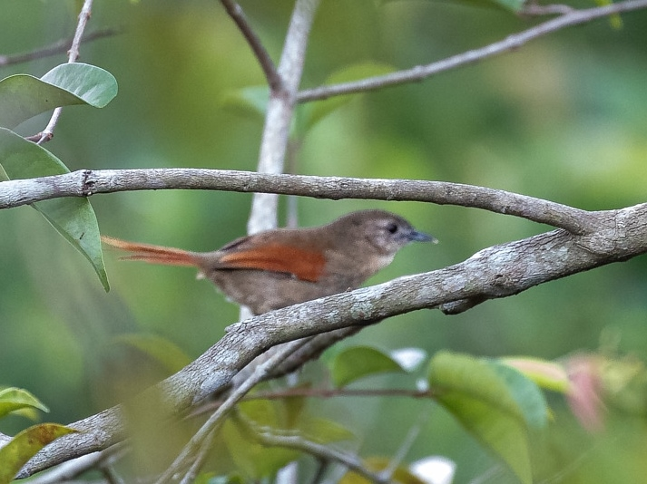 Plain-crowned Spinetail; Careiro da Várzea, Amazonas, Brazil Словѣньскъ / ⰔⰎⰑⰂⰡⰐⰠⰔⰍⰟ: Pijuí coronipardo; Careiro da Várzea, Amazonas, Brasil